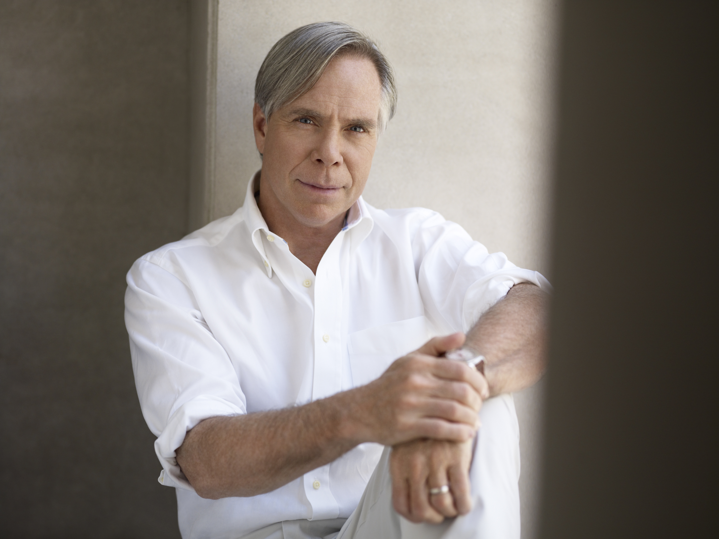 Tommy Hilfiger portrait